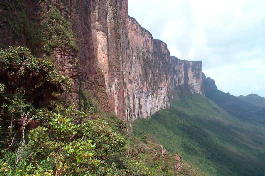 The steep rock wall of Roraimatepui in the Guiana highlands.